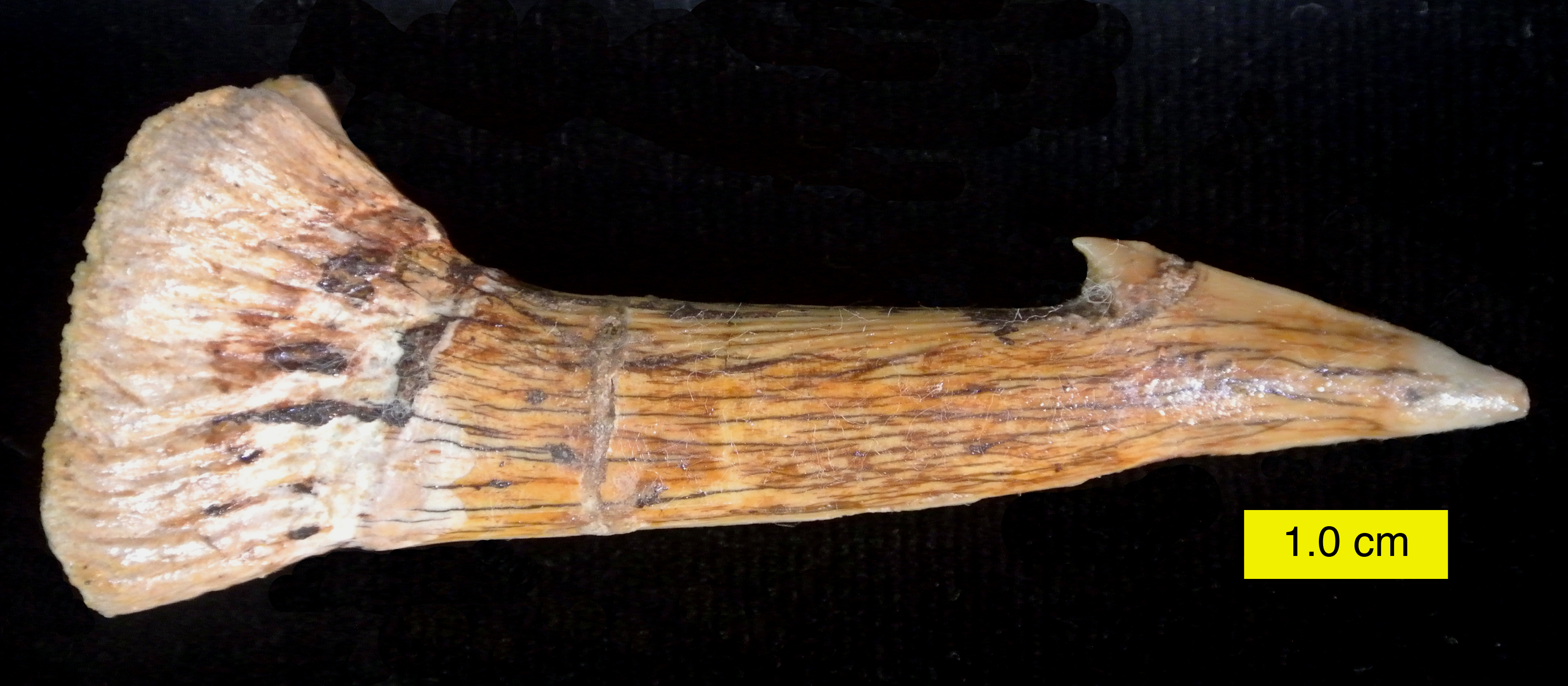 Onchopristis numidus from Kem Kem, Morocco; Tegana Formation (Cenomanian, Cretaceous).